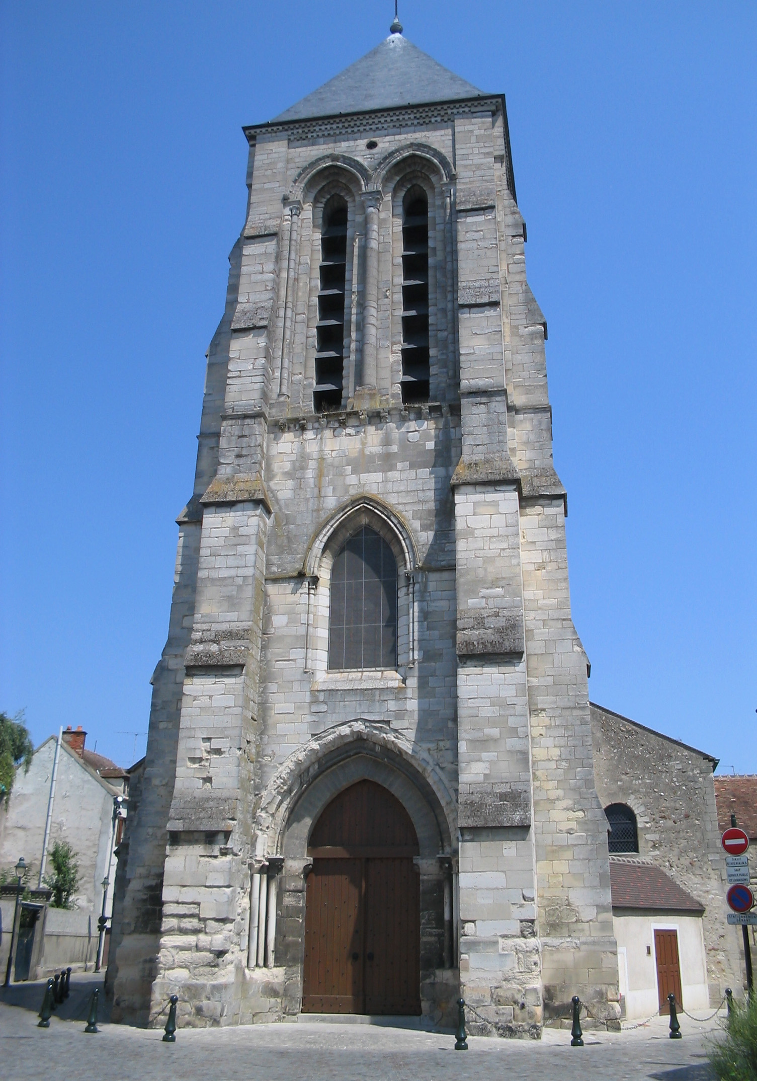 Saint-Spire cathedral in Corbeil-Essonnes, a town in Paris south suburbs, dedicated to St. Exuperius of Bayeux